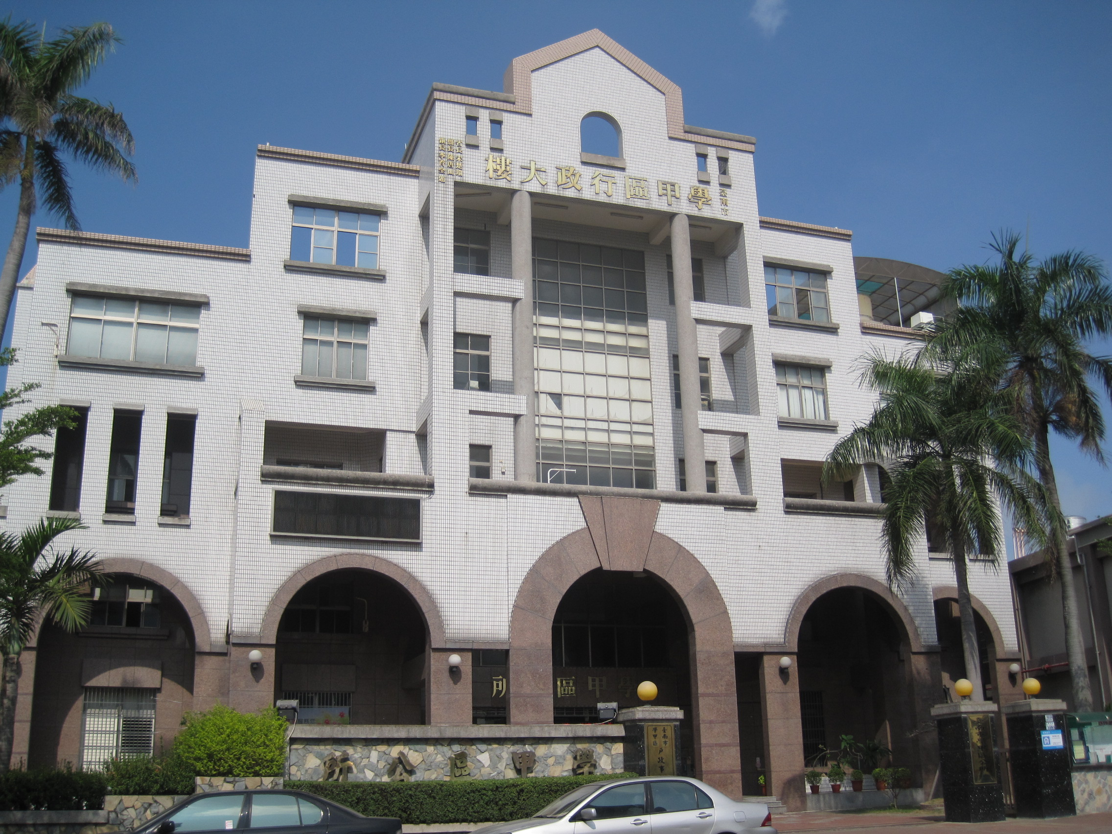 Xuejia District Office, Tainan City, Taiwan